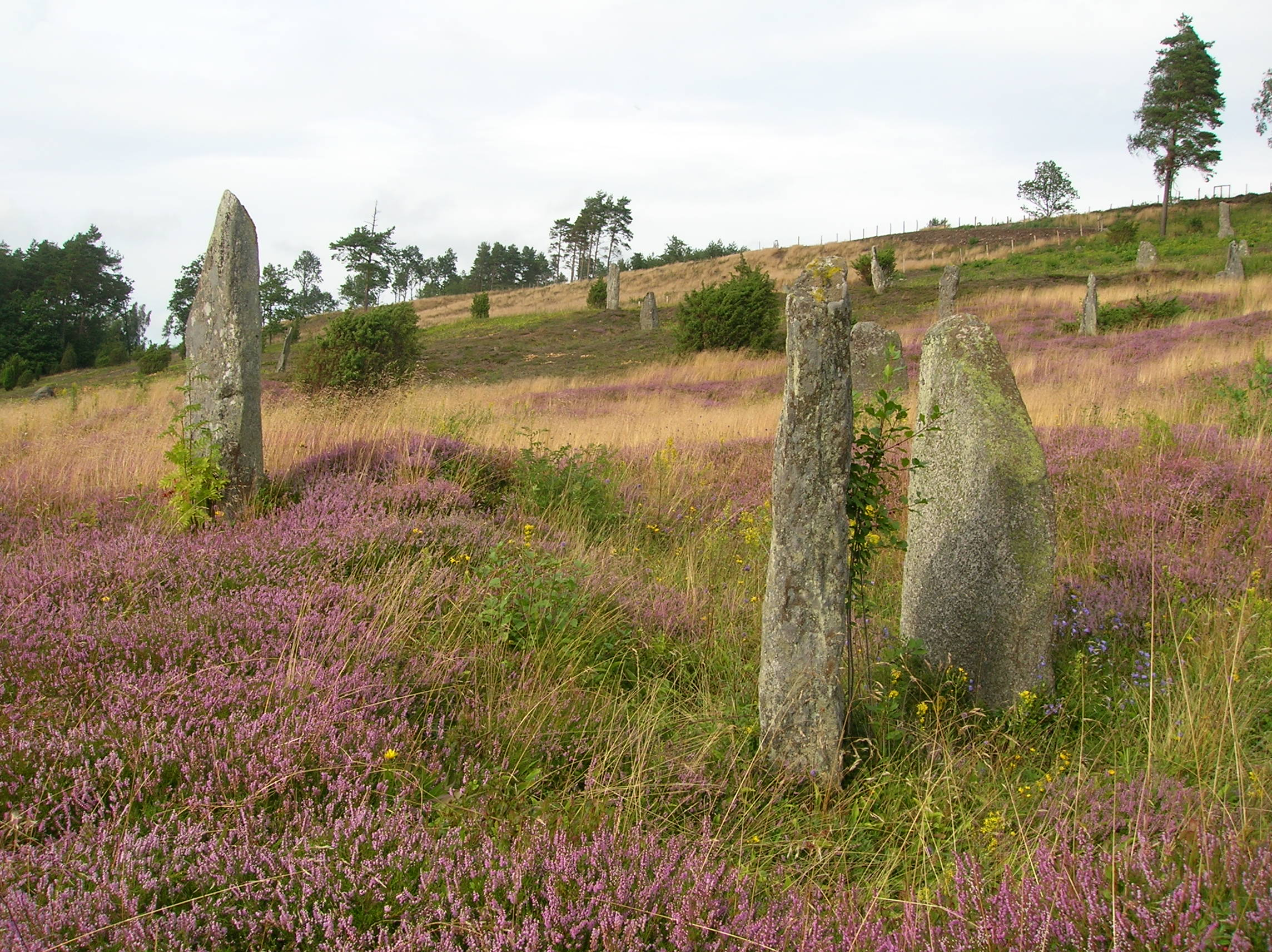 The standing stones at Fjärås bräcka in Fjärås parish, Kungsbacka municipality, Halland, Sweden.